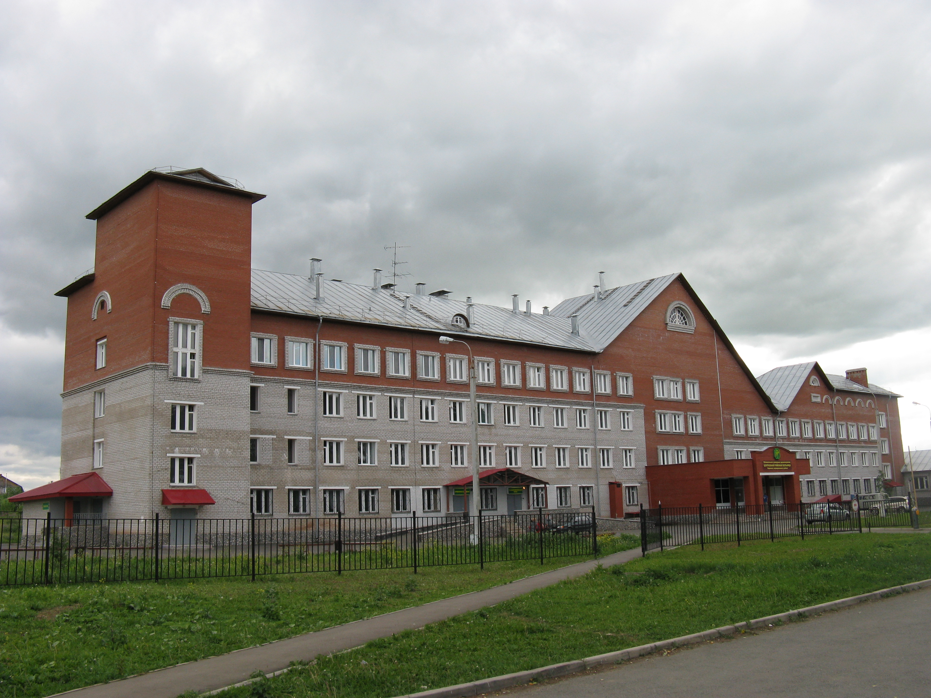 Hospital of the Perm municipal area in Lobanovo